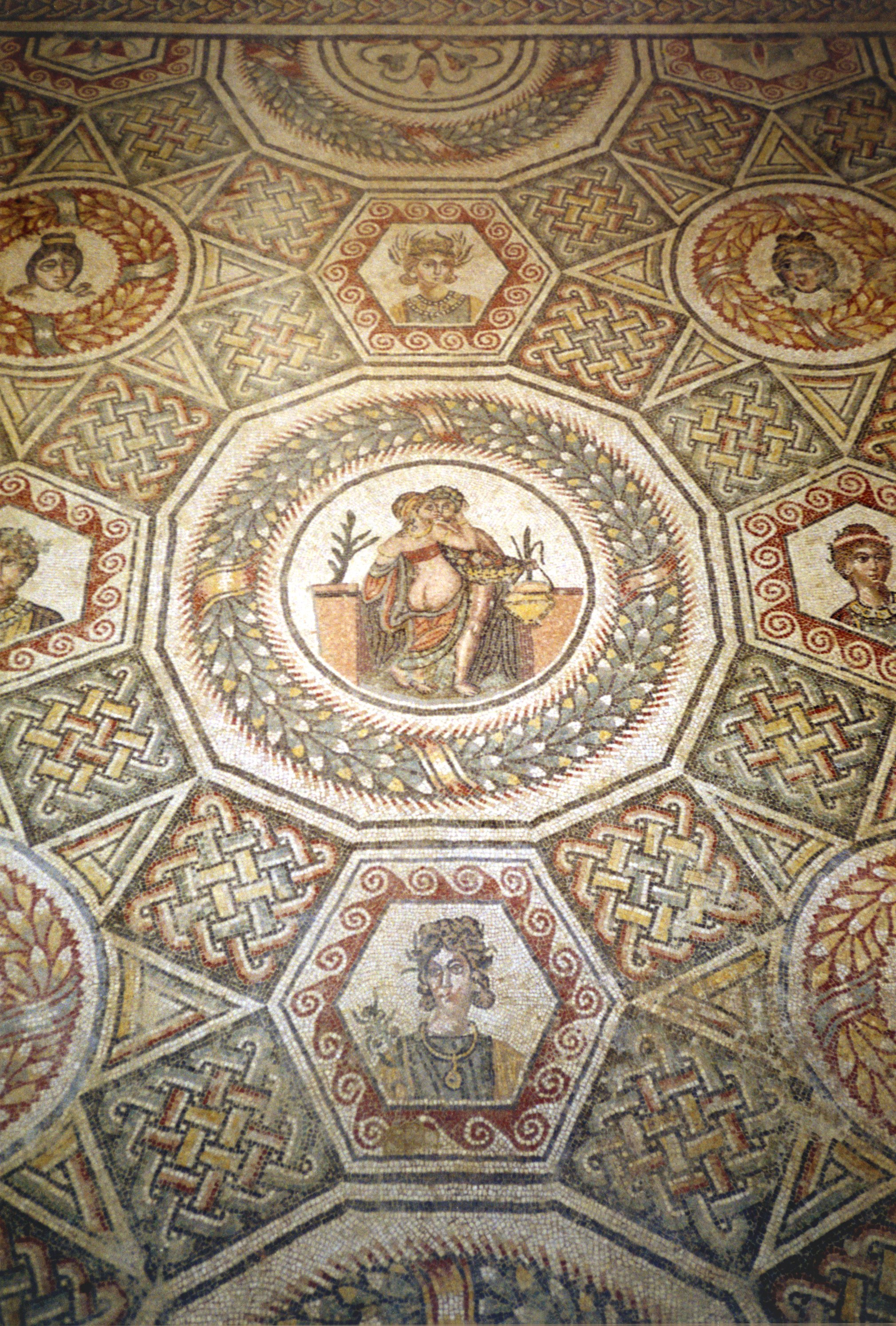 Mosaic floor in the bedroom (Nr. 33) in Villa Del Casale near Piazza Armerina in Sicily, Italy